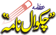 bolfm88chakwal.png